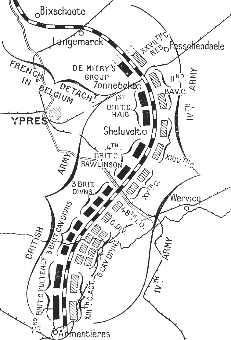 Diagram of French, British and German forces, Ypres, October 1914